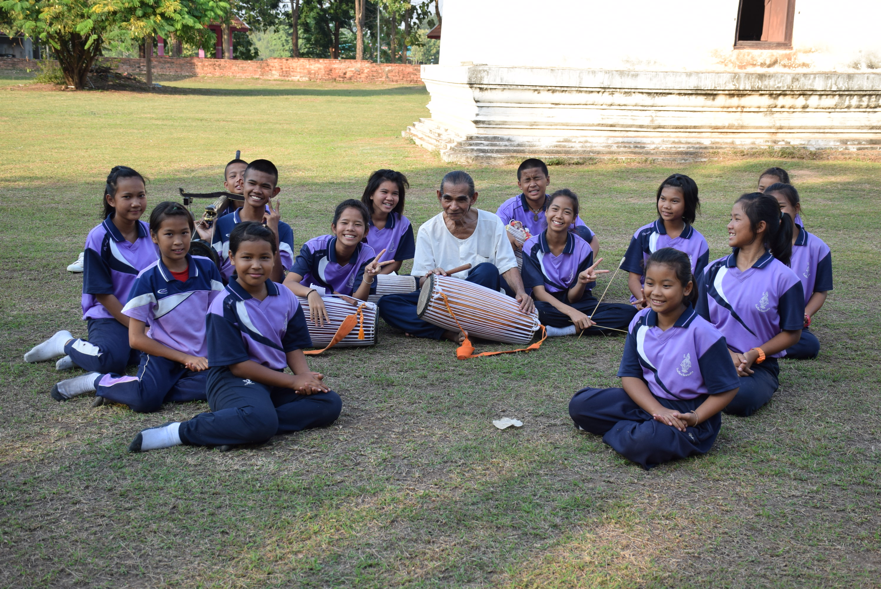 Description